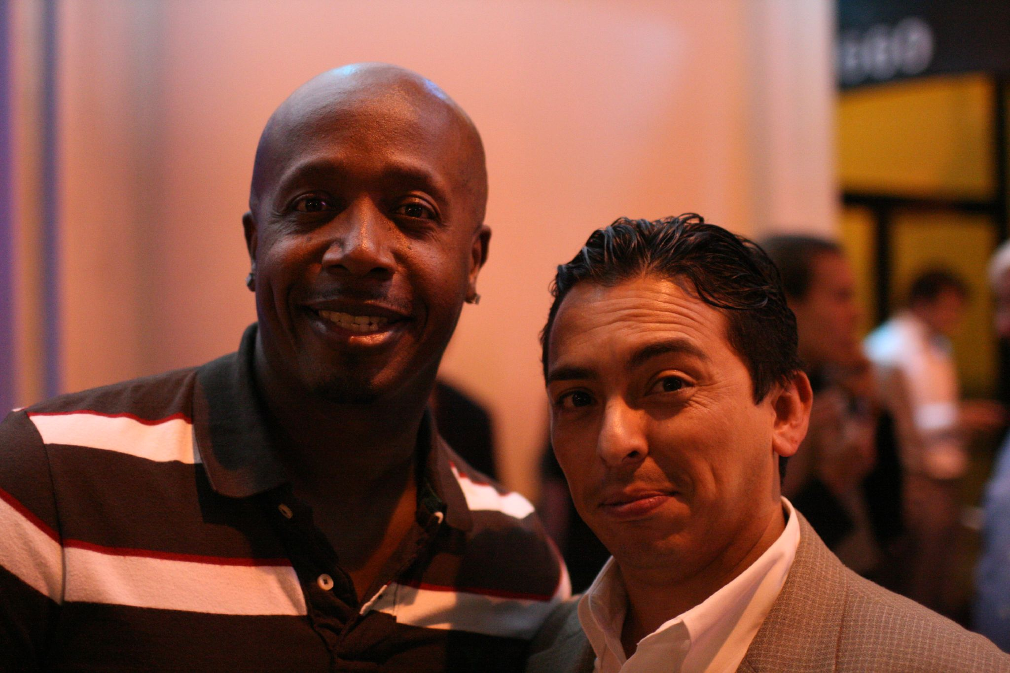 and